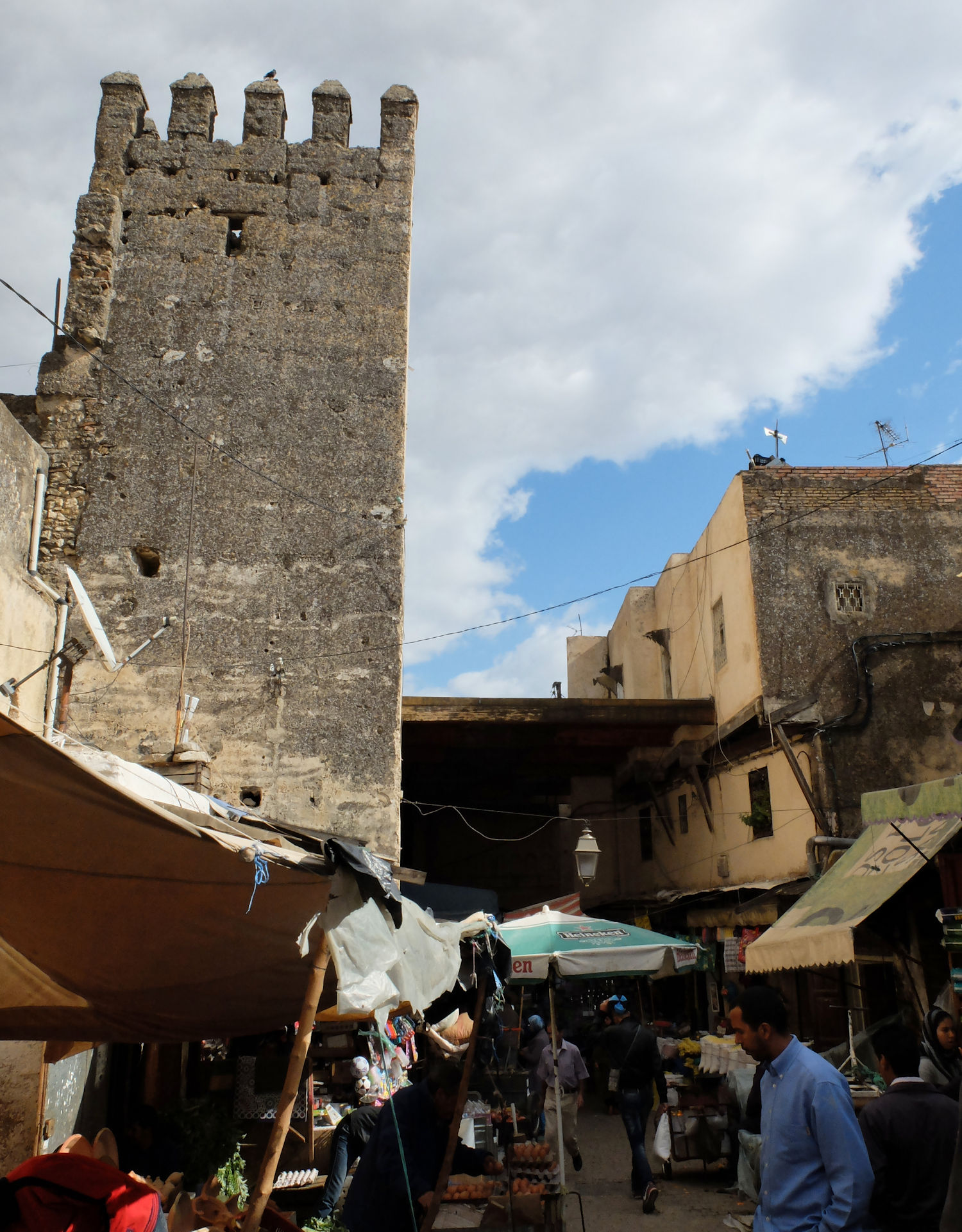 The beginning of Tala'a Kebira, at its western end near Bab Bou Jeloud. The tower on the left is part of the remparts of the Kasbah an-Nouar. Various food stalls are installed along this part of the street.